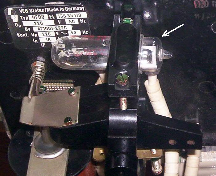 mercury switch in a bistabe relais